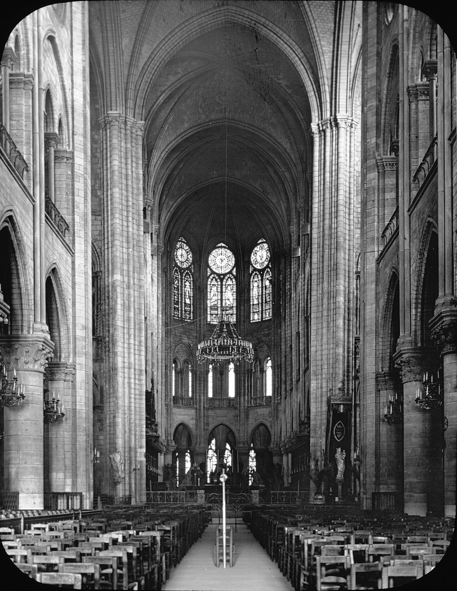 Notre Dame, Paris, France, 1903. [Notre Dame. Paris nave]. Brooklyn Museum Archives.